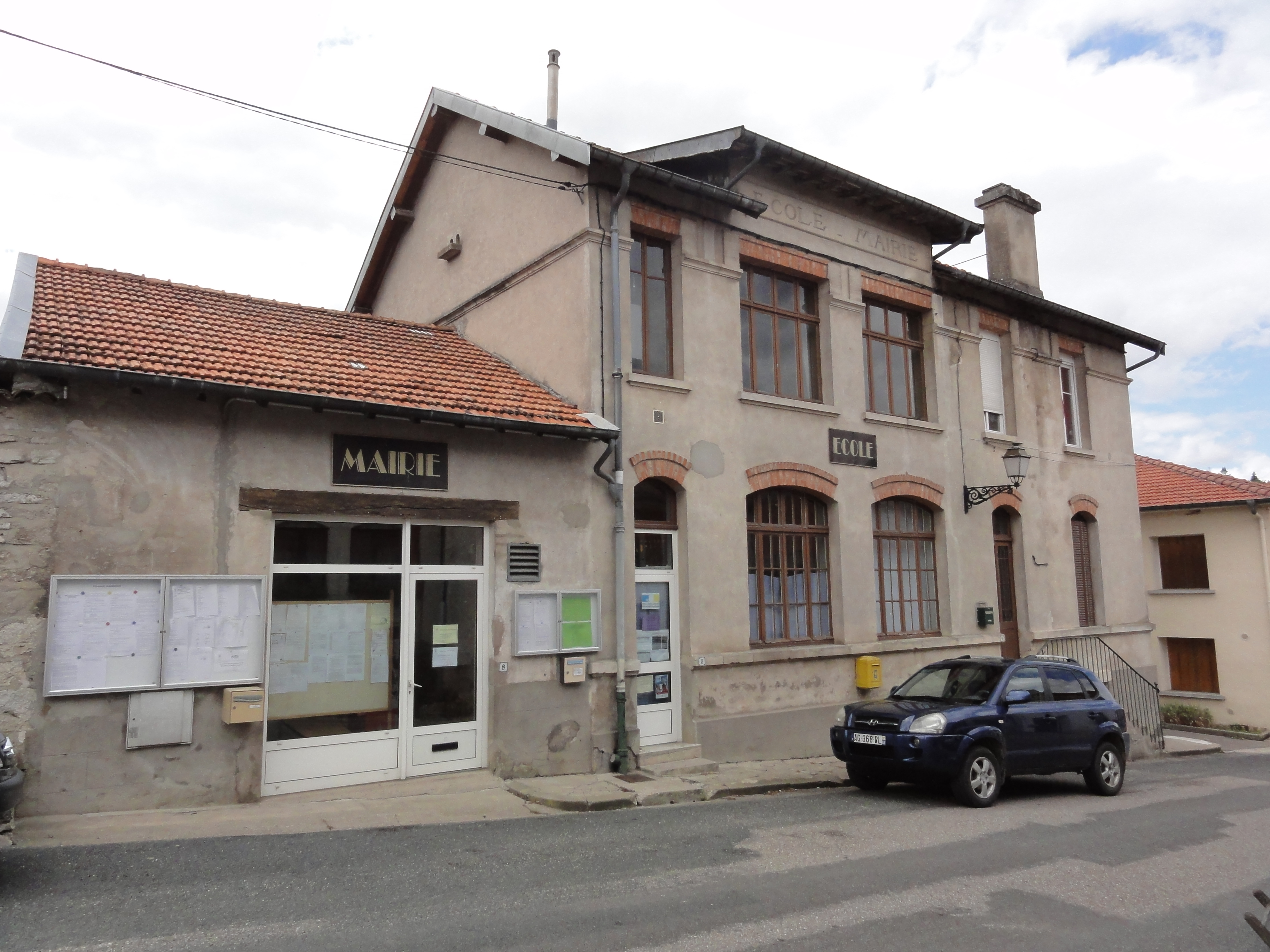 Longeaux (Meuse) mairie-école